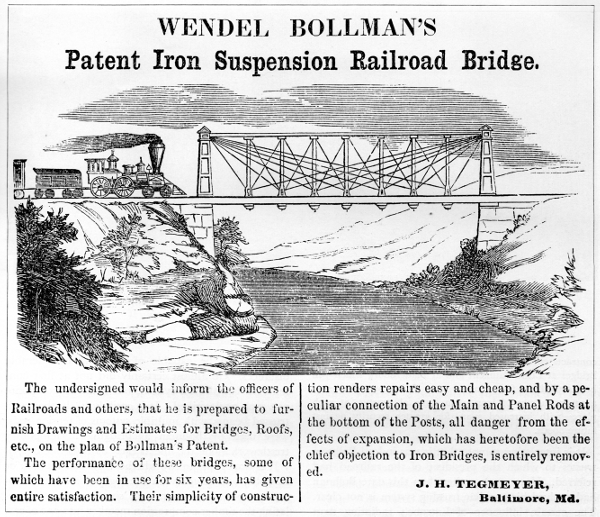 Advertisement for W. Bollman & Co., Baltimore, Maryland, in the Railroad Advocate, August 1855. Original caption: "Figure 12.—Advertisement in the Railroad Advocate, August 1855."